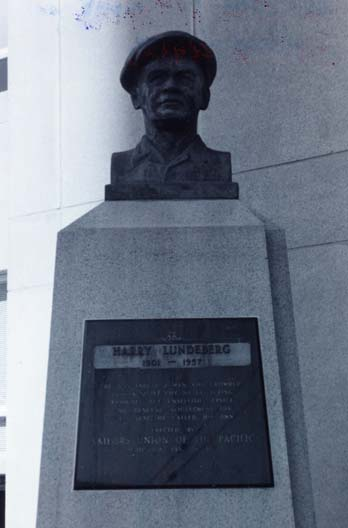 Harry Lundeberg — bust by E. Hunt, 1957. In San Francisco, California. On commemorative plaque on base: HARRY LUNDEBERG/ 1901-1957/HE WAS INDEED A MAN WHO CROWDED/INTO A SHORT LIFE NO GLITTERING/PROMISE, BUT UNSELFISH SERVICE/AND GENERAL ACHIEVEMENT FOR/THE COURSE HE CALLED HIS OWN/ERECTED BY/SAILORS UNION OF THE PACIFIC/DEDICATED JAN. 28, 1958 (signed)